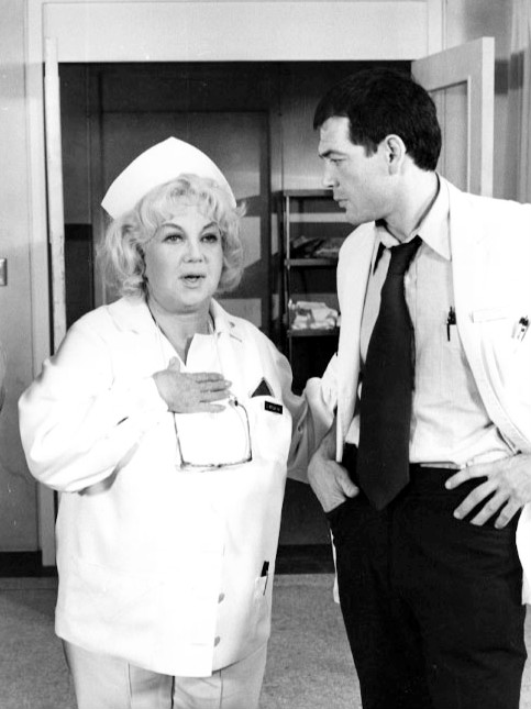 Photo of Ann Sothern (sic) and Robert Forster from the short-lived medical anthology series Medical Story. This episode is "The Midnight Healer".